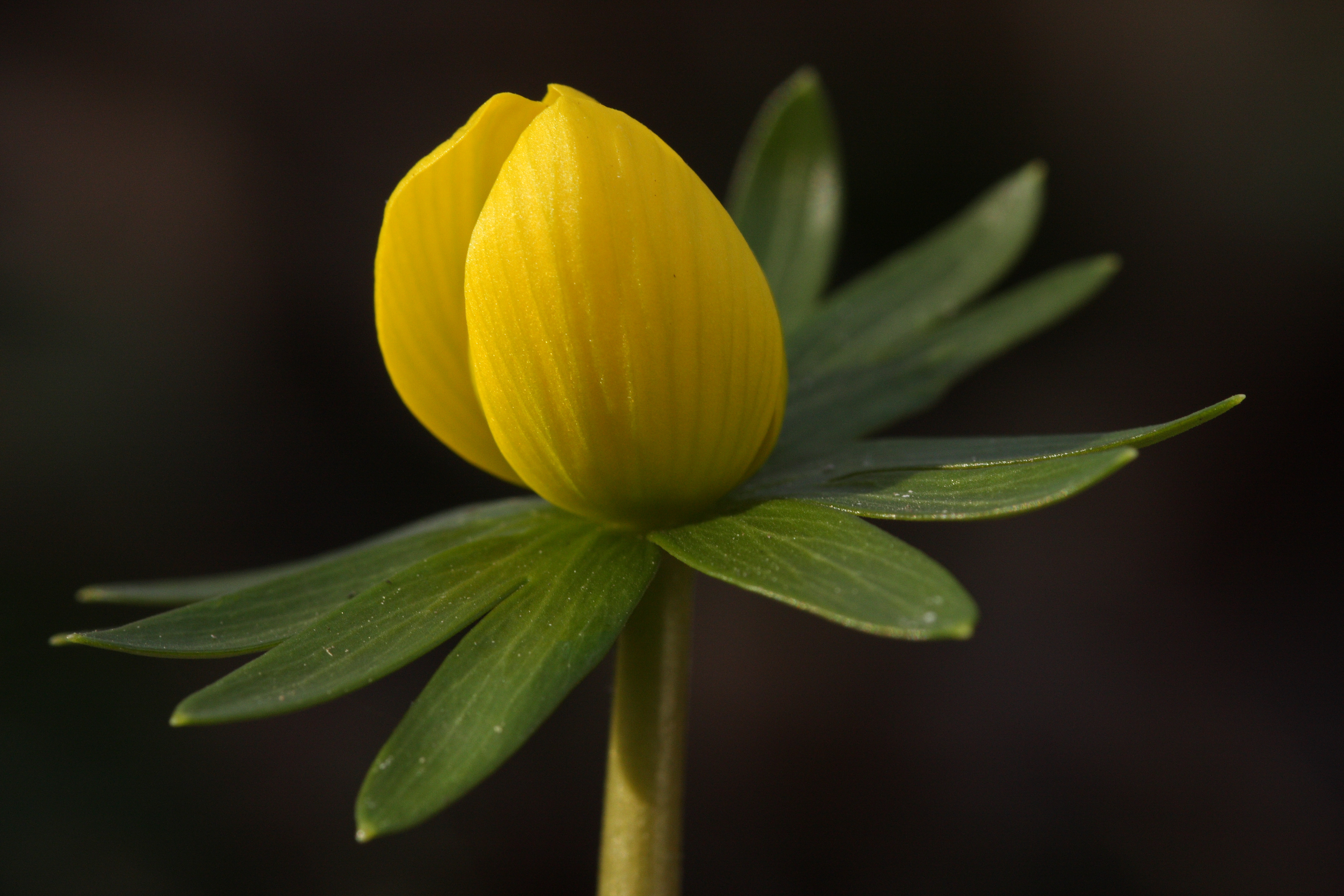 Eranthis hyemalis, Sarród, Hungary